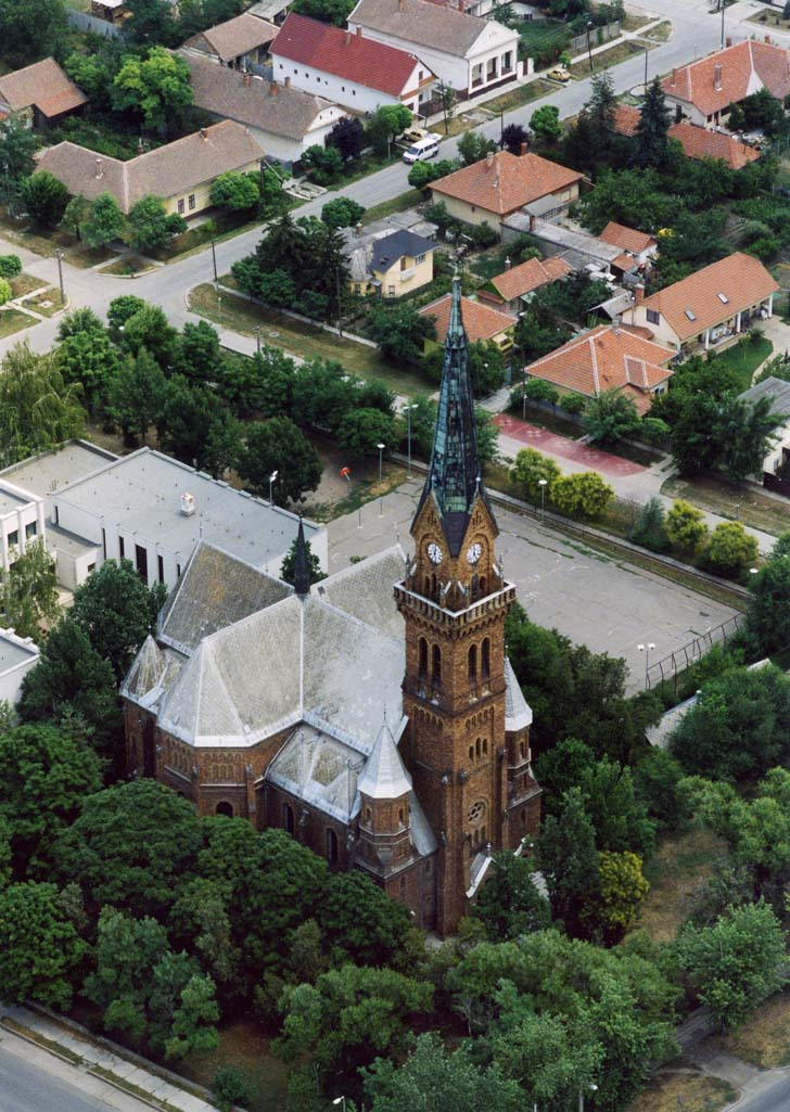 Szarvas, Hungary, aerial photographyEvangélikus Új Templom. Azonosítója: -3347. - Békés m., Szarvas, Szabadság út 70.